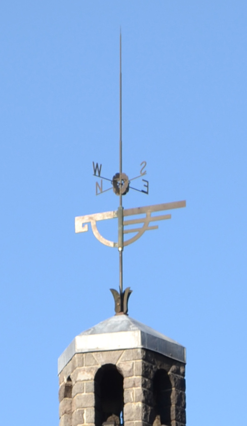 Timberline Lodge bronze "snow goose" weather vane designed by Margery Hoffman Smith, Oregon State Fine Arts Administrator for the WPA Federal Art Project